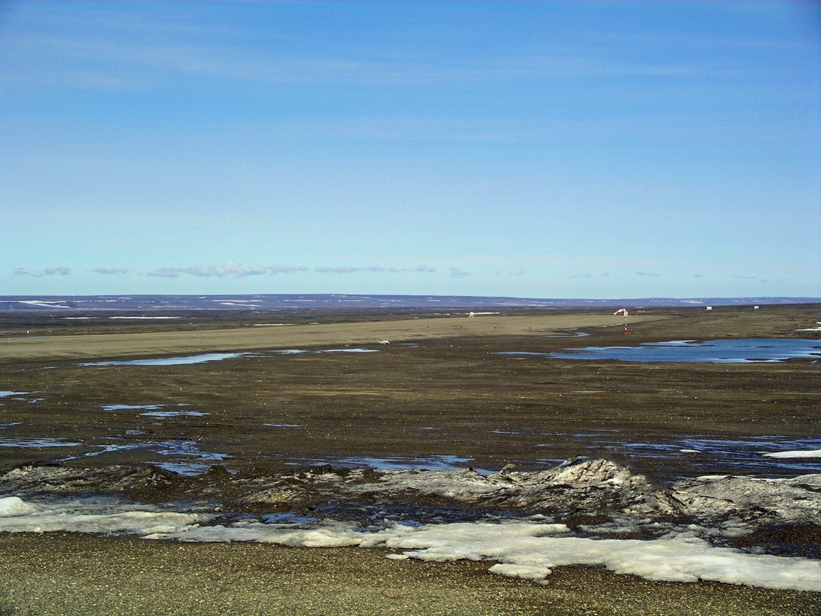 Runway 08/26 True